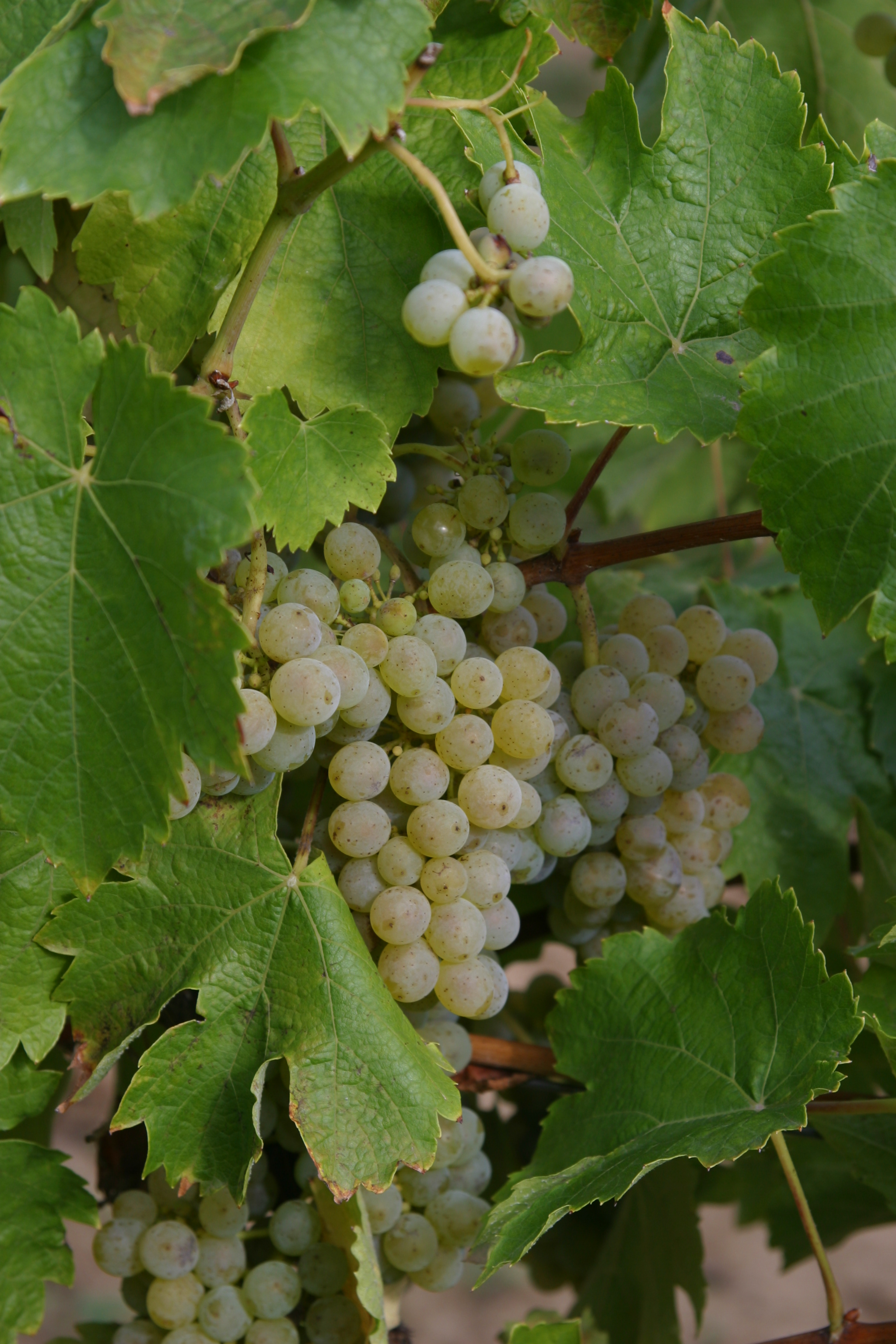 Leafs and grapes of the white grape variety Prinzipal